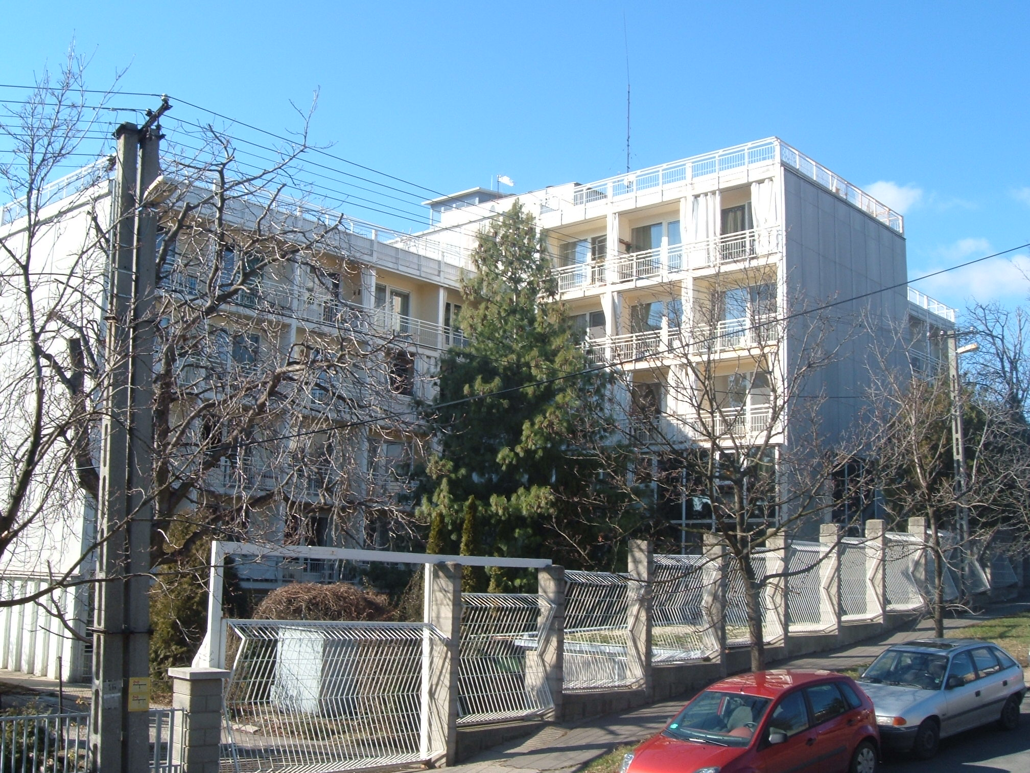 Pope John XXIII Home for the Elderly, Budapest.XII. Dayka Gábor u. 102-104